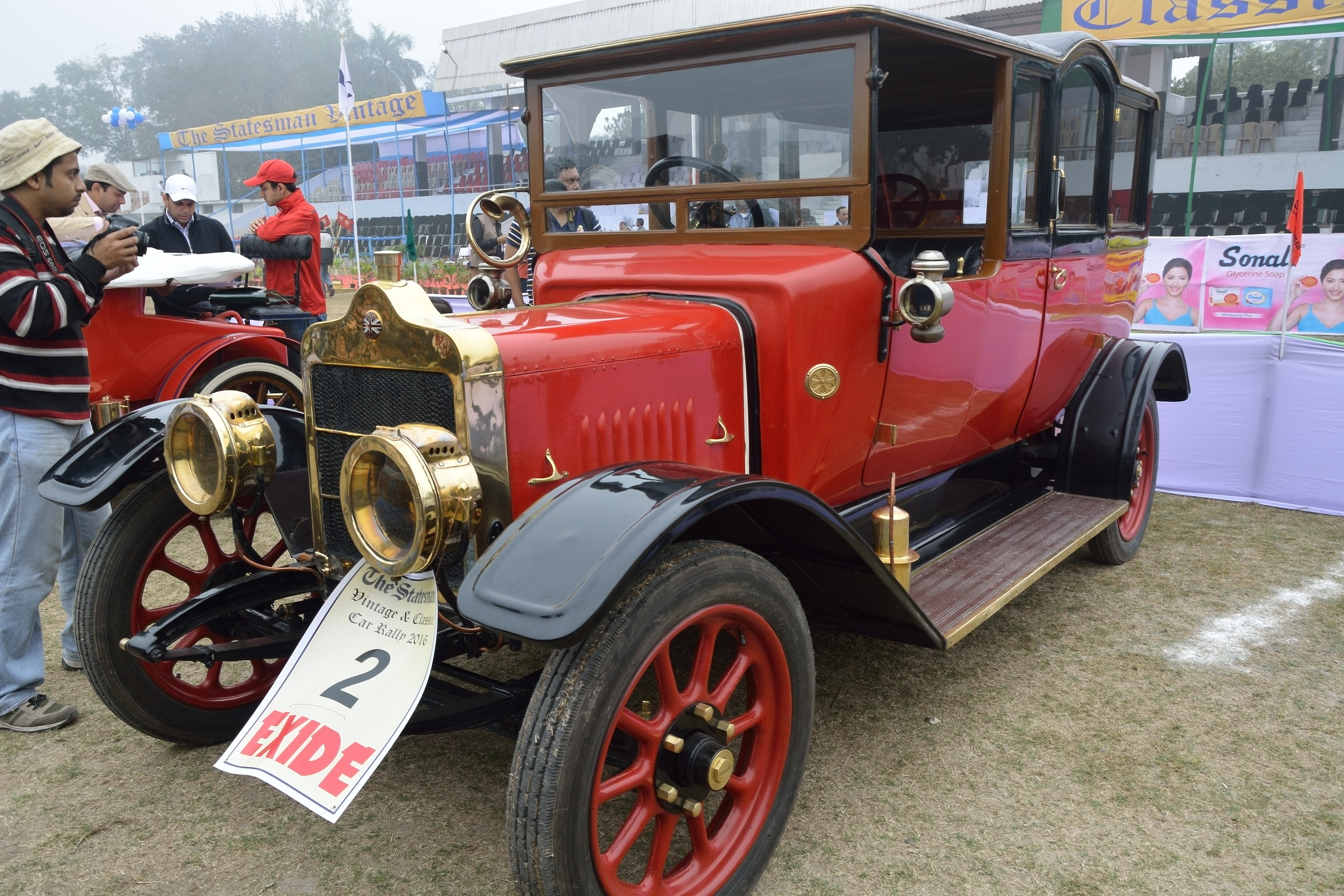 1912 Standard Caventry